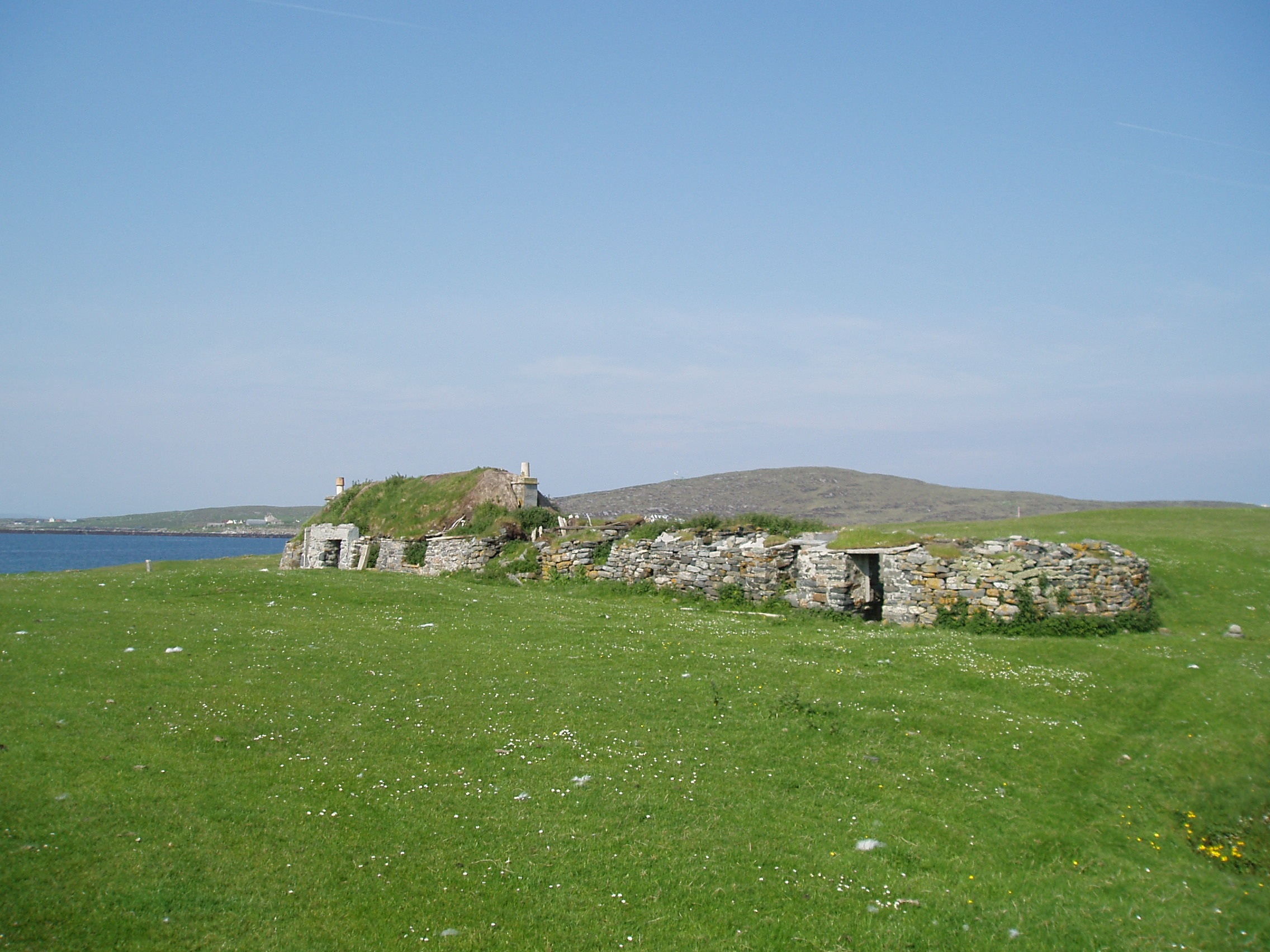 Isle of Berneray, Outer Hebrides; Ruins opposite Hostel.